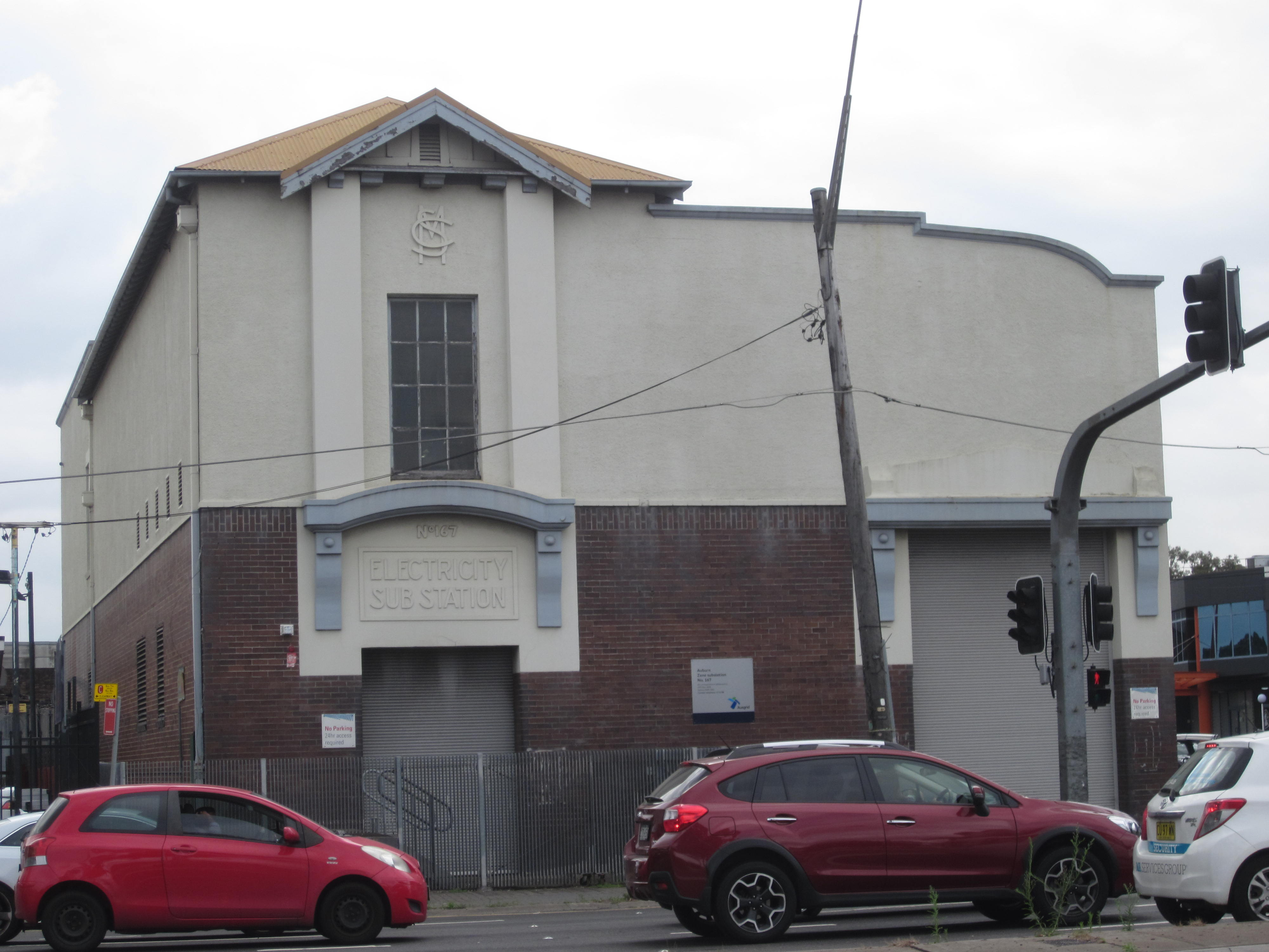 Electricity Substation No. 16, 93 Parramatta Road, Auburn, New South Wales is listed on the New South Wales State Heritage Register